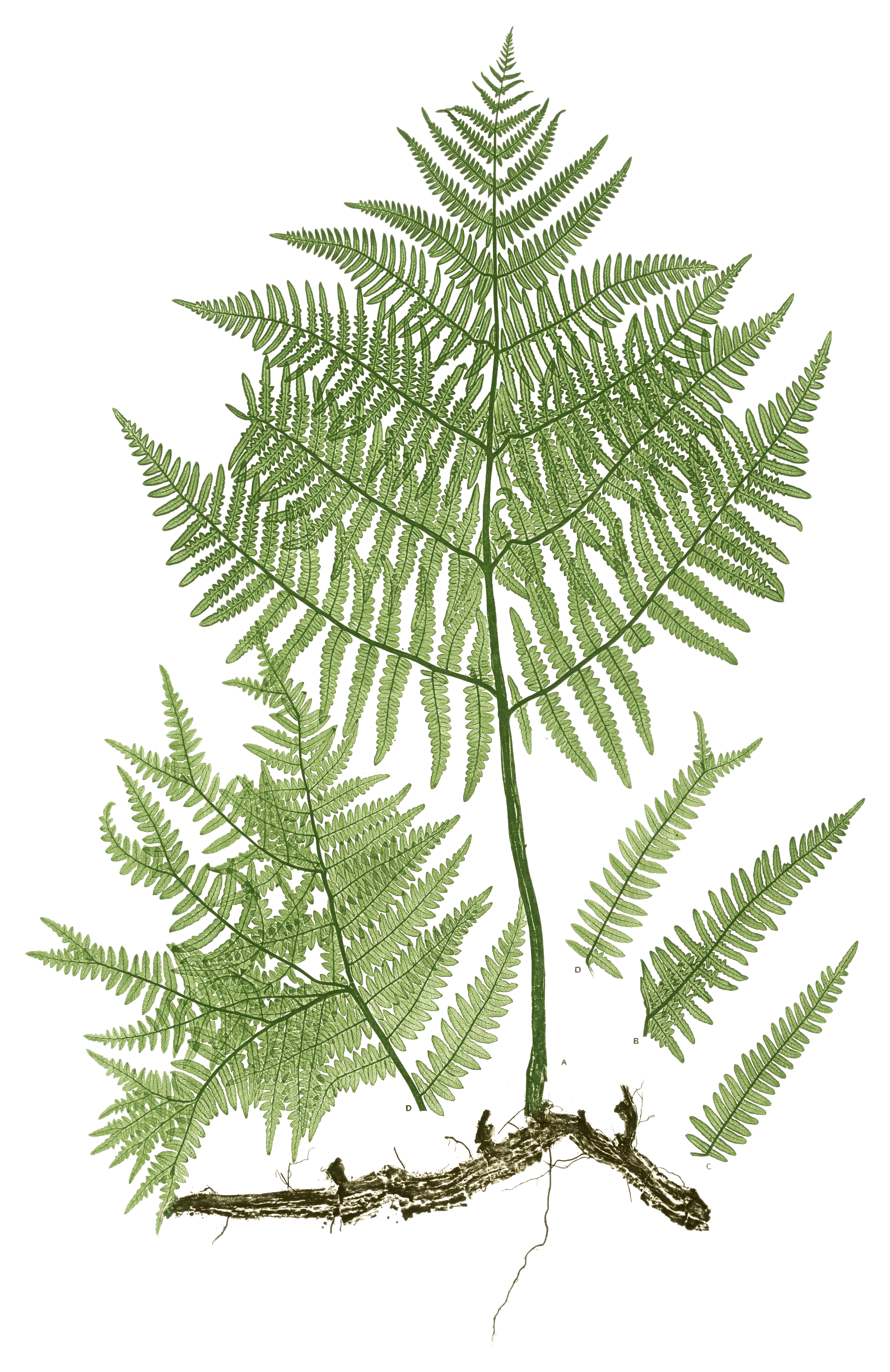 Plate from book